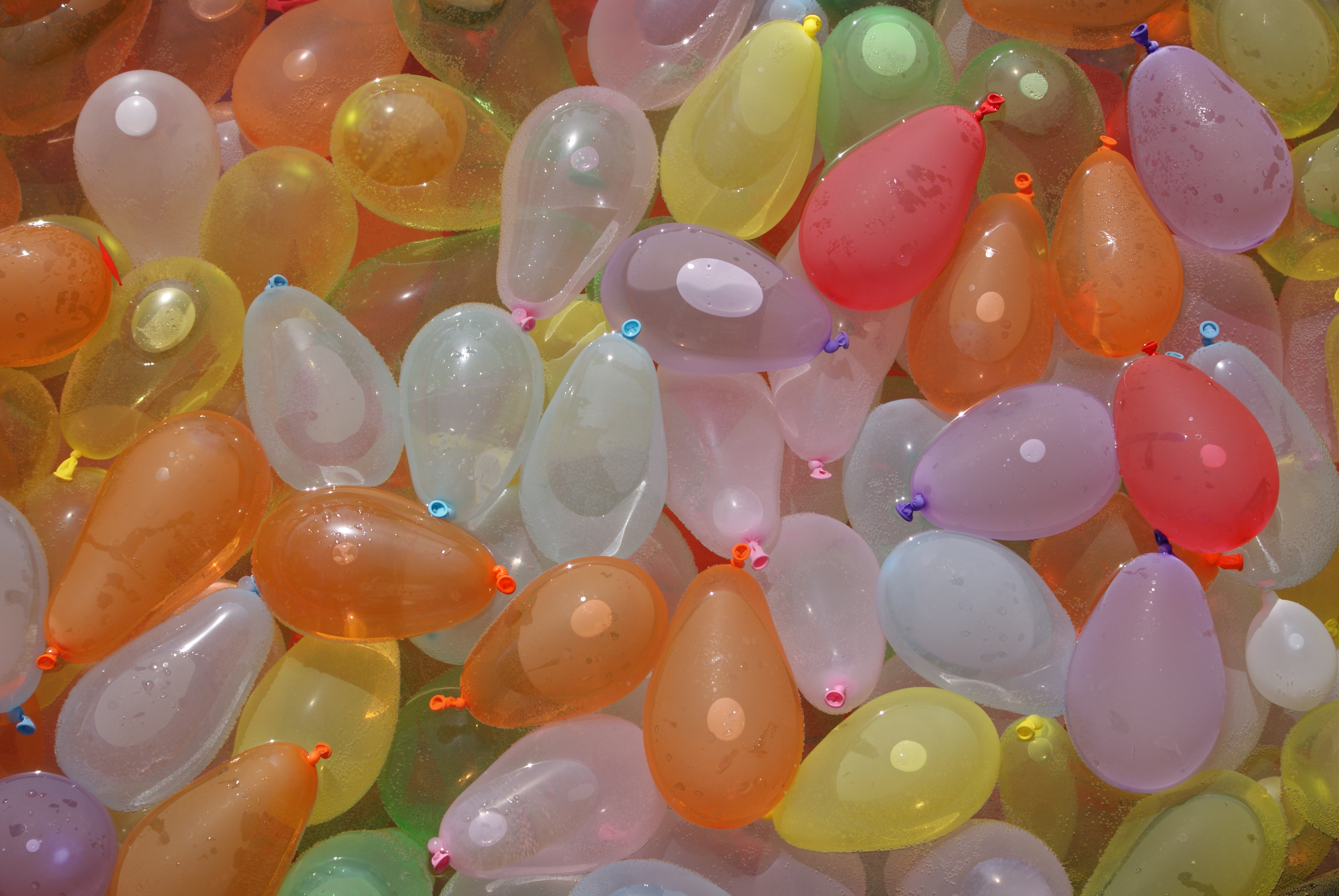 Water balloons filled with water and ready for use.